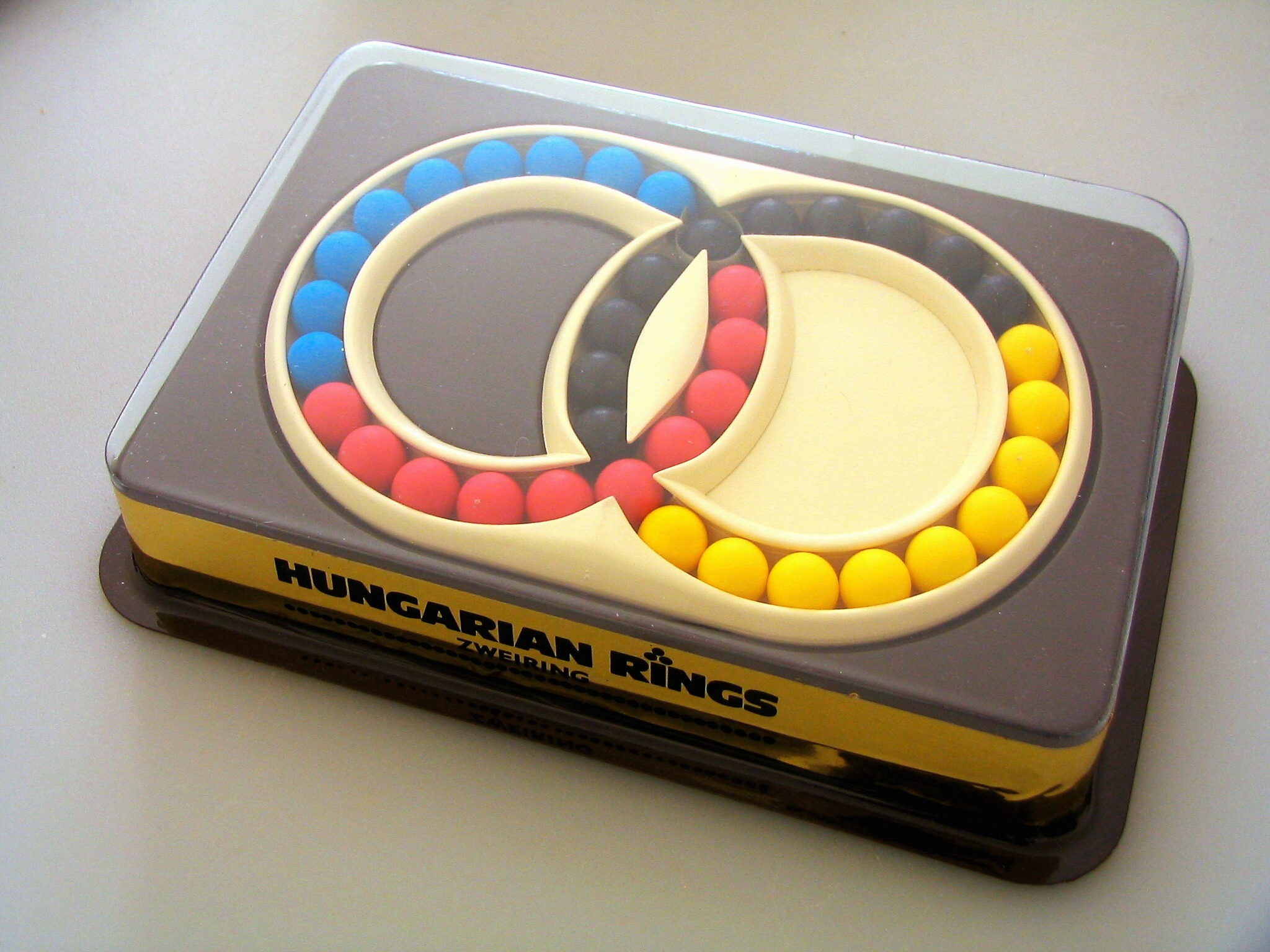 Puzzle - Hungarian Rings.